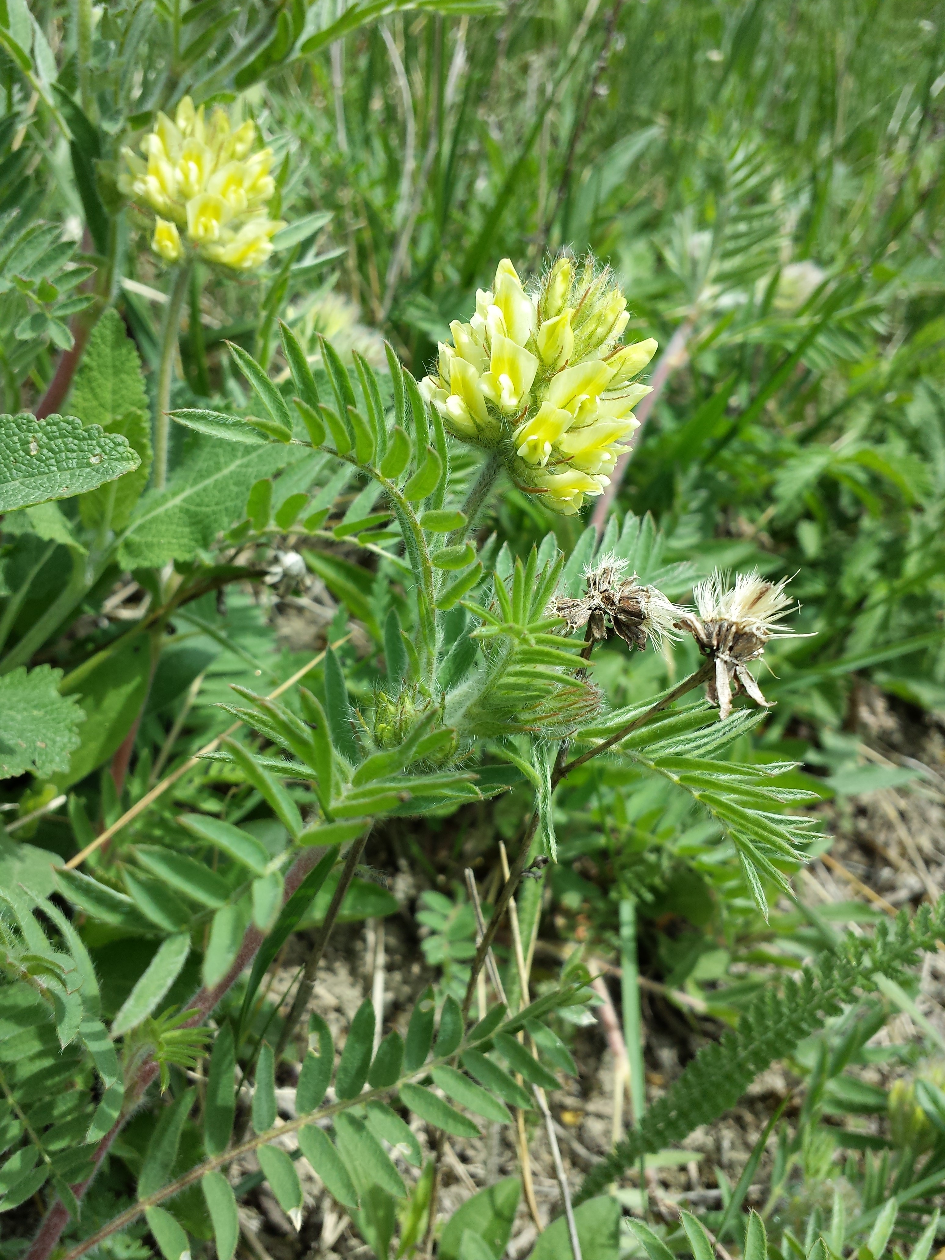 Habitus Taxonym: Oxytropis pilosa ss Fischer et al. EfÖLS 2008 ISBN 978-3-85474-187-9 Location: Dunajovické kopce, Jihomoravský kraj, Czech Republic - ca. 275 m a.s.l. Habitat: dry grassland